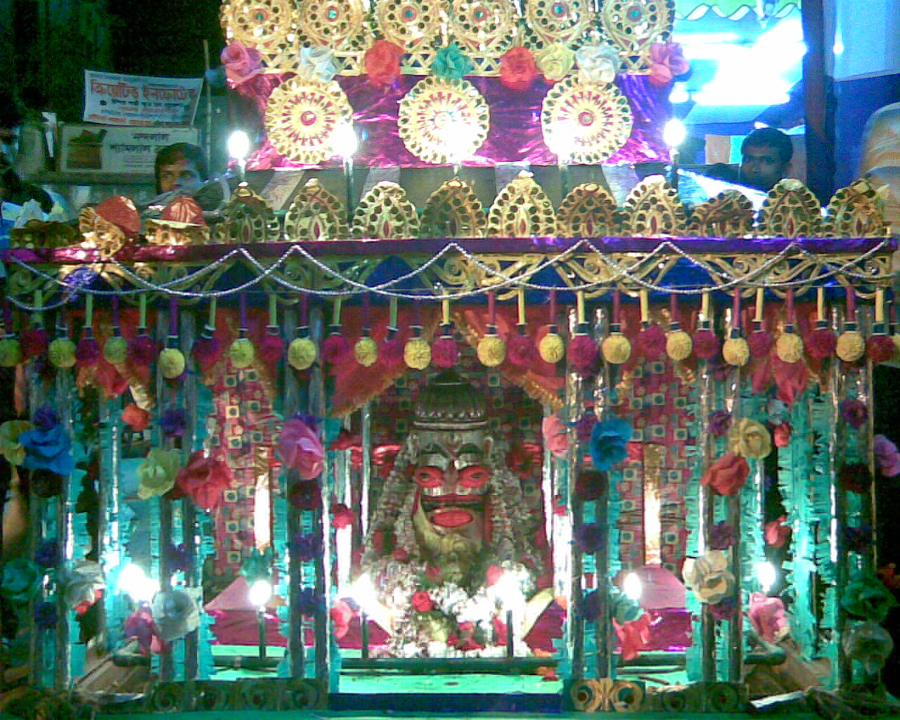 শিব চতুর্দলায় সাজানো হয়েছে, বুড়োশিব, নবদ্বীপ